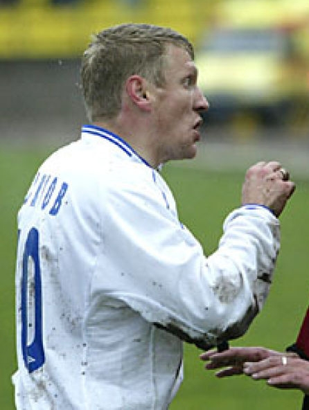 Valery Esipov in action for FC Rotor